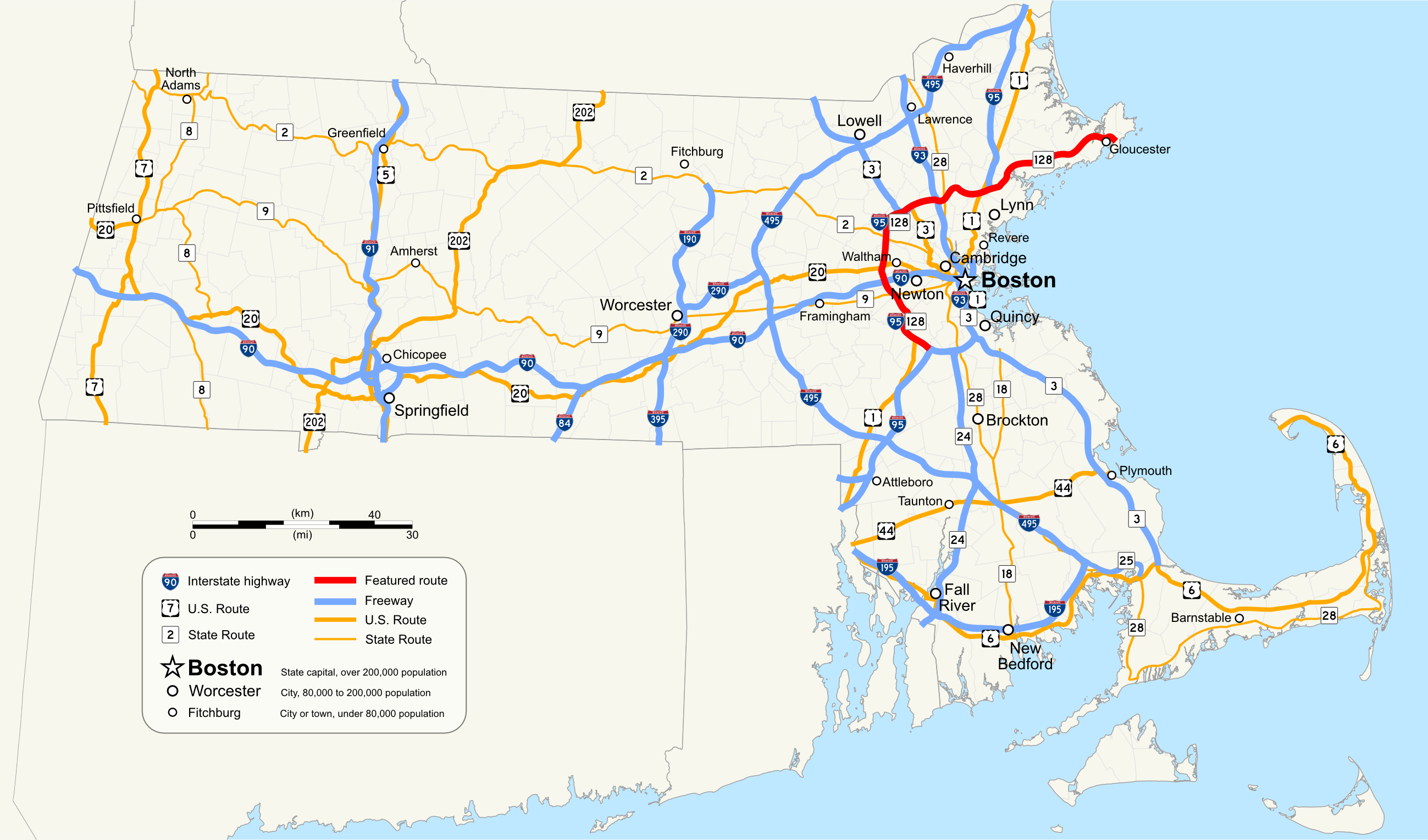 Map of major highways in Massachusetts with Massachusetts Route 128 highlighted in red